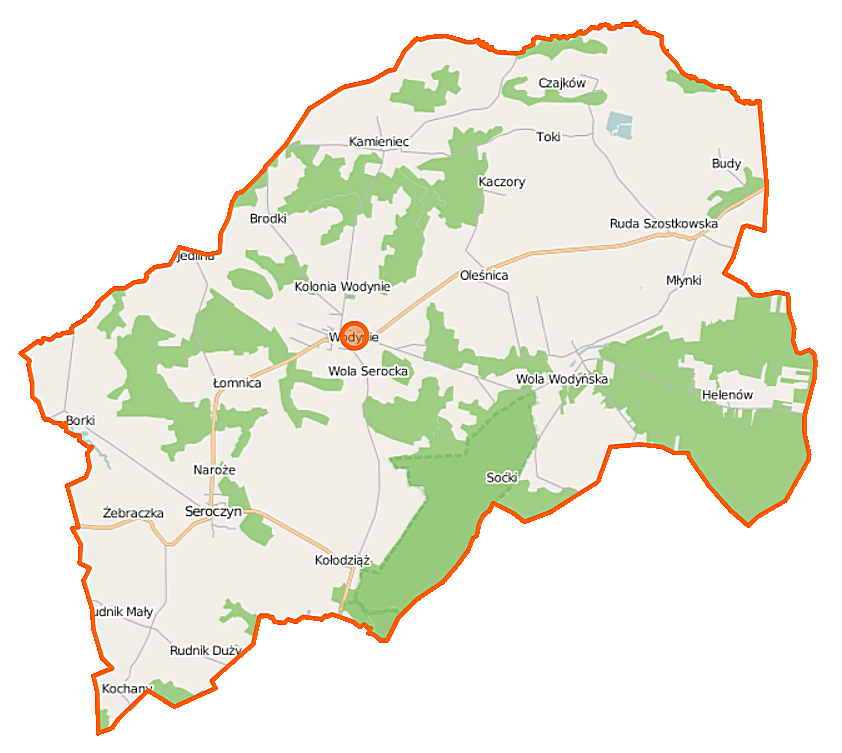 Map of Gmina Wodynie, Poland This map of Wodynie (gmina) was created from OpenStreetMap project data, collected by the community. This map may be incomplete, and may contain errors. Don't rely solely on it for navigation. Border coordinates52.097221.8624←↕→22.093551.9699